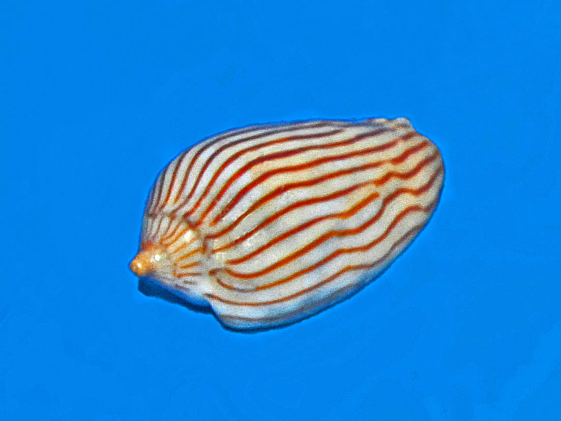 A shell of Amoria zebra on display at the Museo Civico di Storia Naturale di Milano